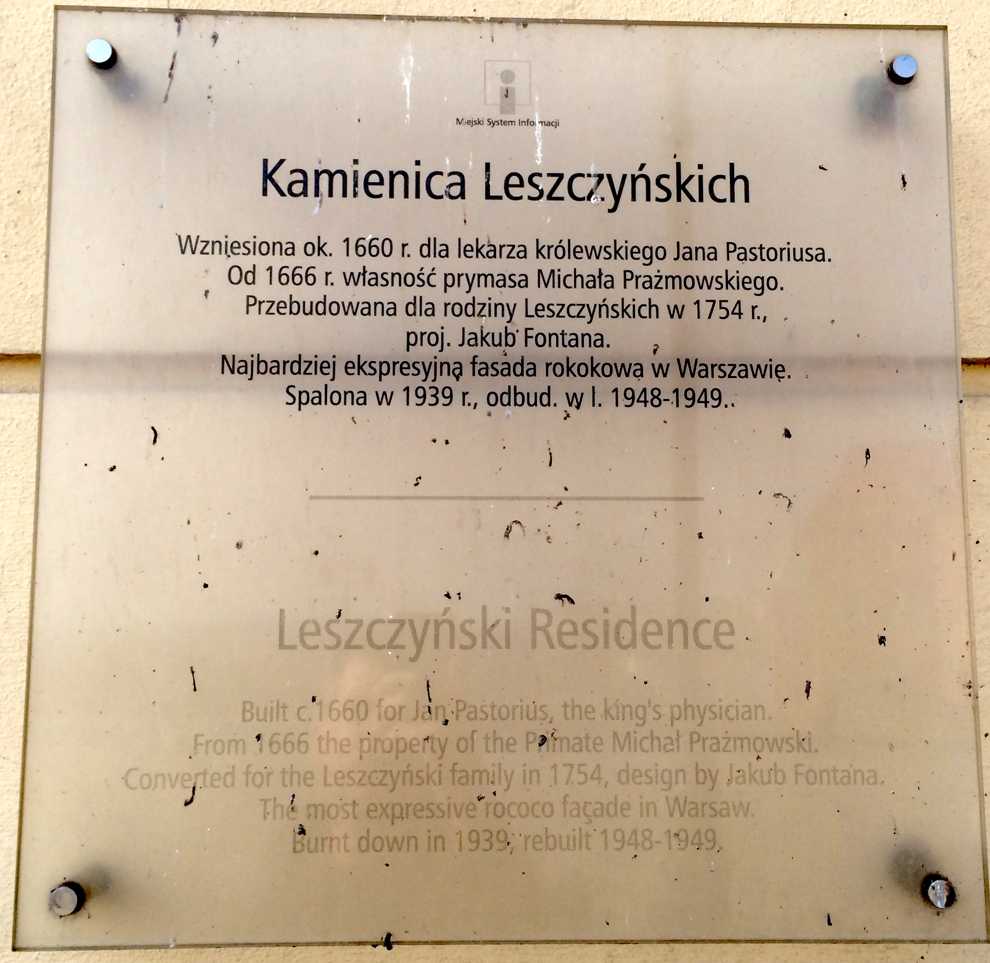 Sign describing the Leszczynski Residence (Kamienica Leszczynski), on Krakowskie Przedmieście in Warsaw, Poland